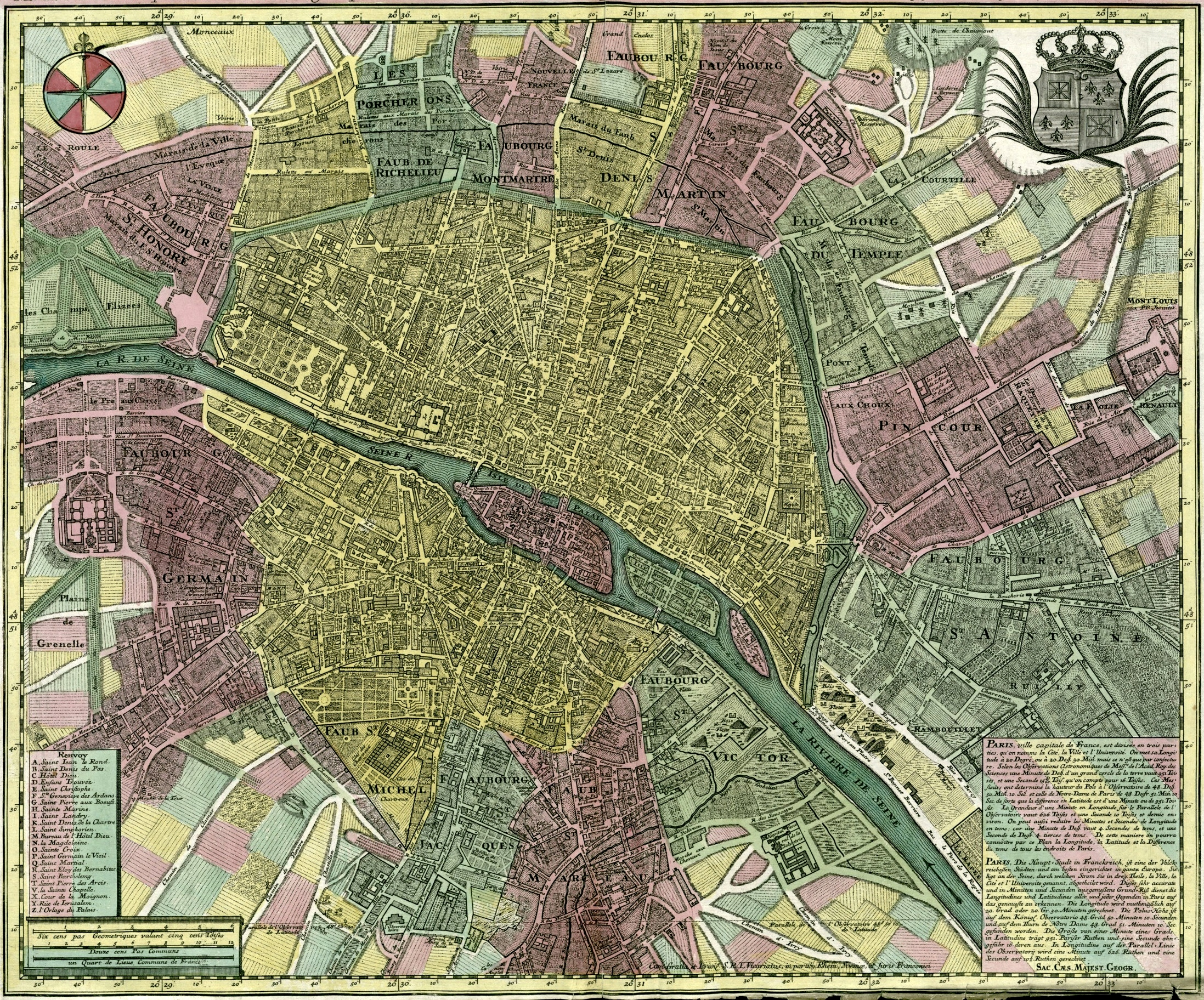 Map of Paris by Matthäus Seutter (1678-1757)